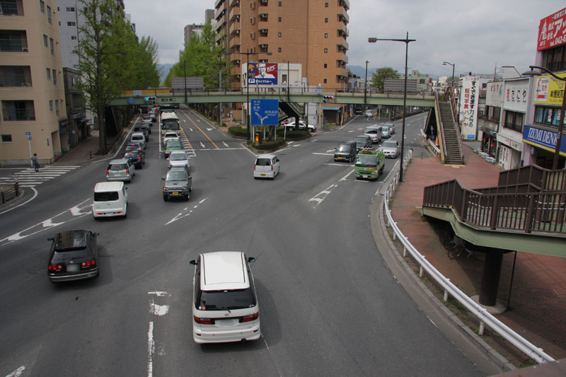 Oiwake Intersection (Intersection of Japan National Route 20 and Yamanashi-Kanagawa-Tokyo Prefectural Road 521 Uenohara-Hachioji Route), Hachioji, Tokyo, Japan. View from Kita-Odori